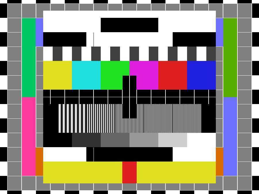 Philips PM5544 but with a square central section, which apparently makes it a PM5538. Used in some Middle East countries.